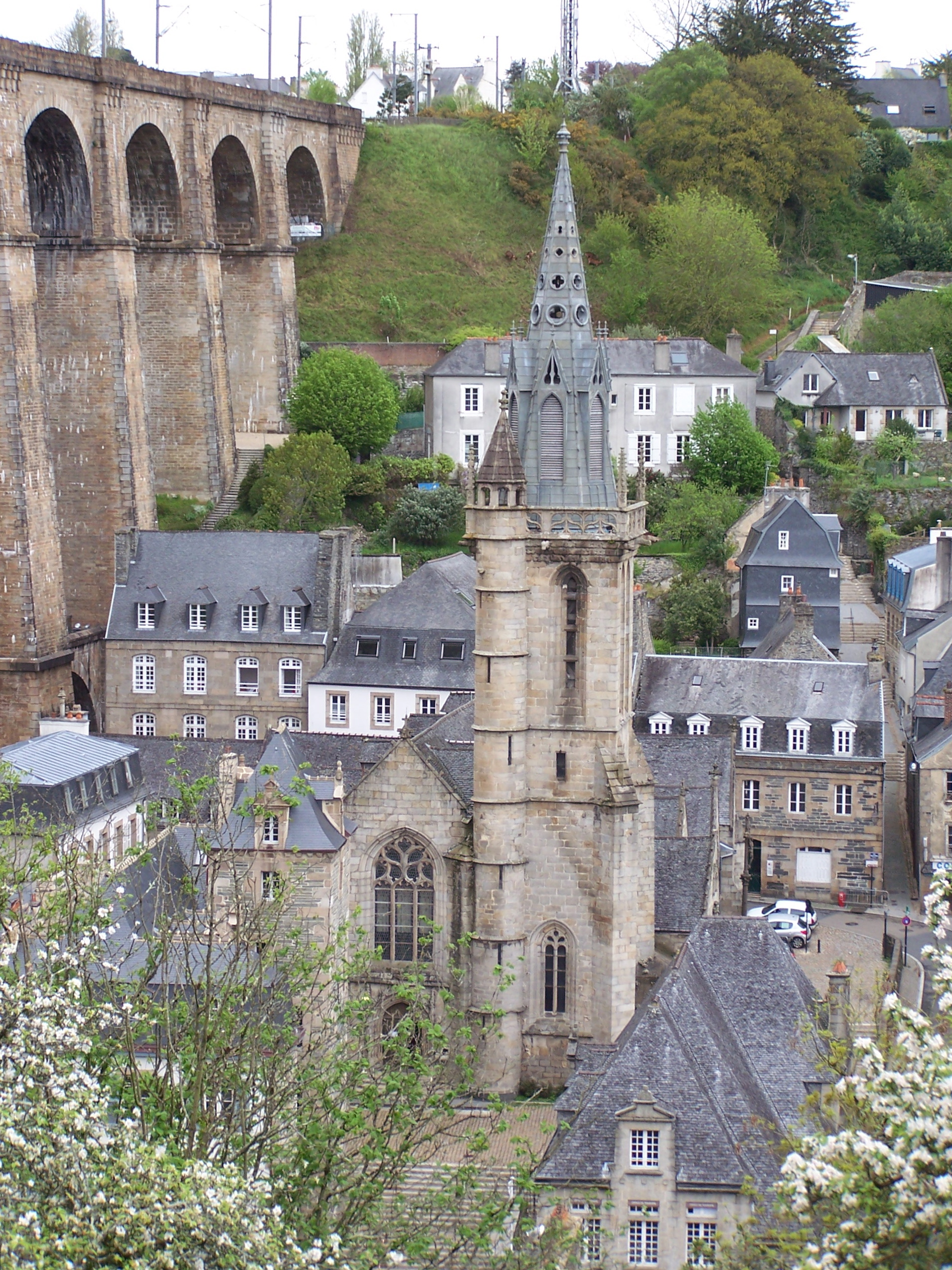 L'église saint-Mélaine de Morlaix.